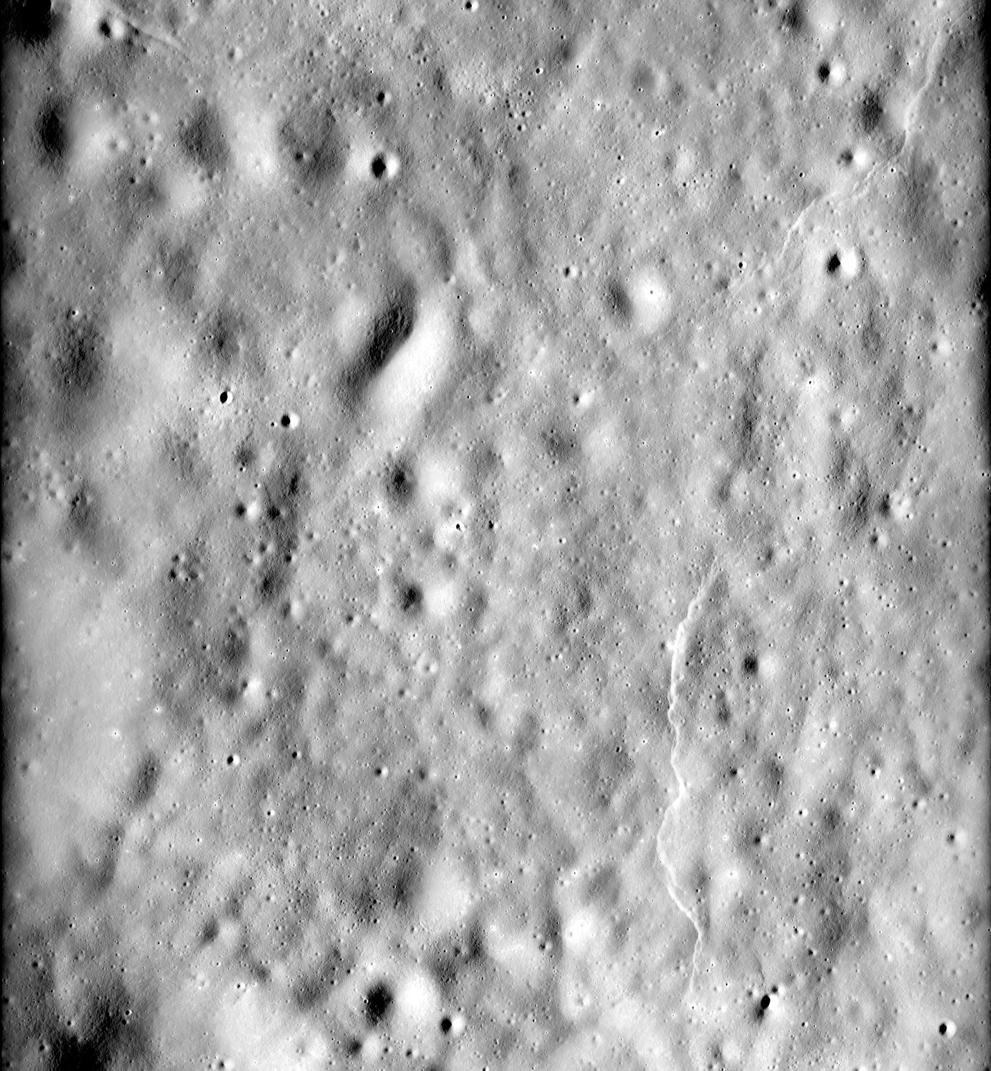 View of part of the interior of Mandel'shtam crater, on the far side of the moon, with north at top. This is Figure 28-6 of the 'Apollo 16 Preliminary Science Report' (NASA SP-315, 1972), which has the following caption: Part of Apollo 16 pan camera frame 4150 showing details of a typical far-side highlands scarp in the floor of Mandel'shtam Crater (fig. 28-5). The picture width is approximately 10 km.